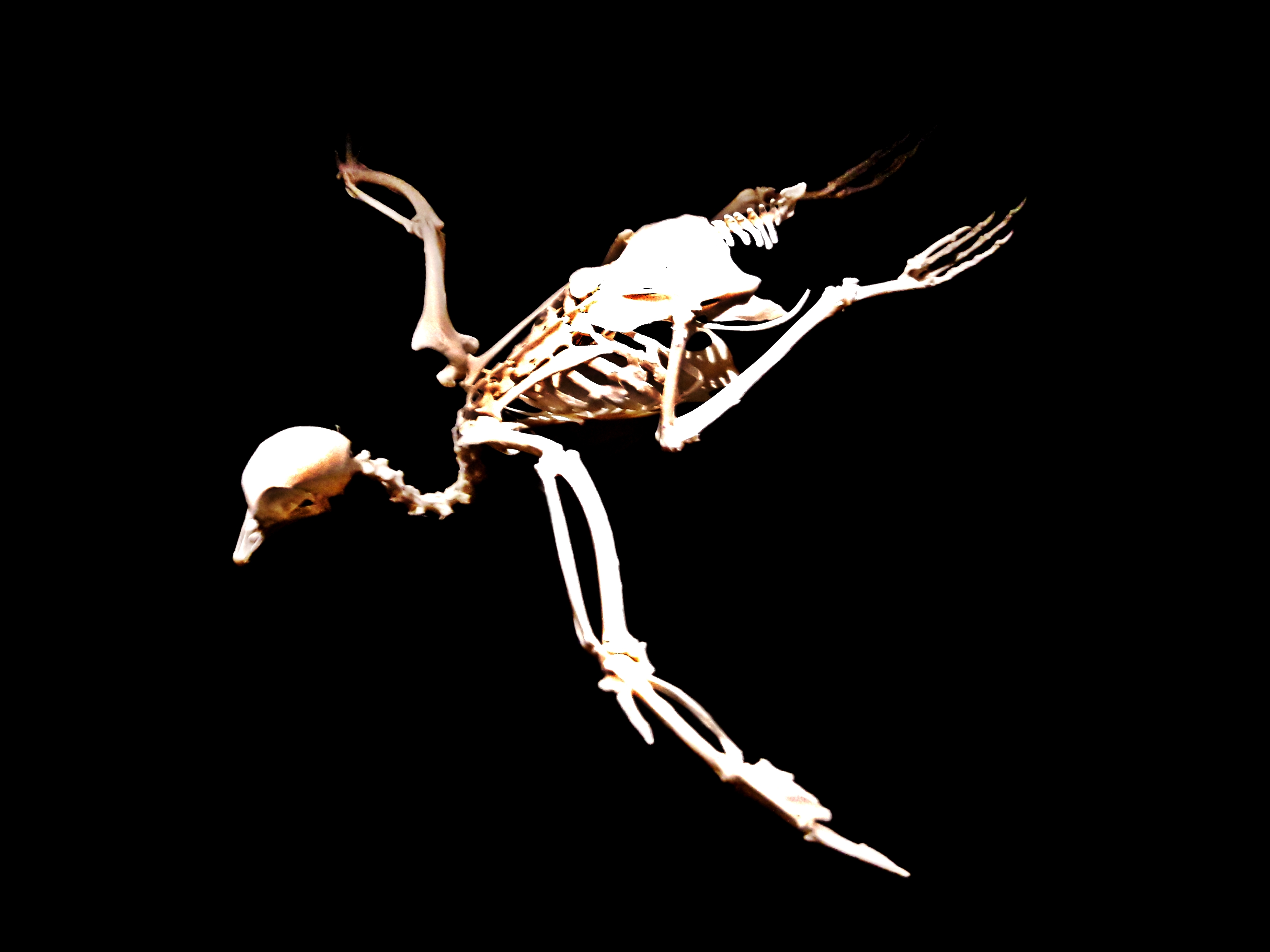 Columba livia, rock dove, skeleton, Naturalis, Leiden, the Netherlands